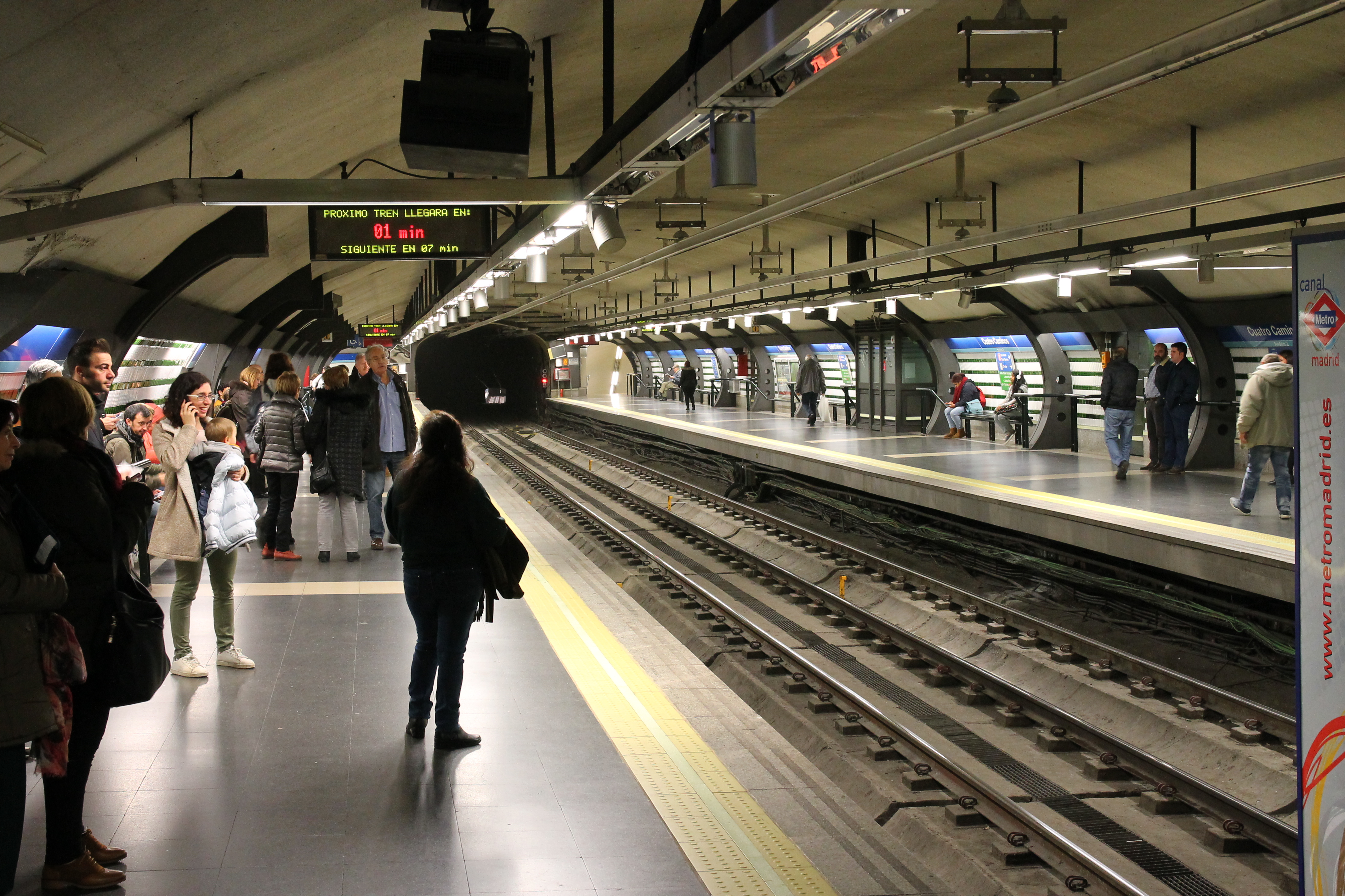 Estación de Cuatro Caminos